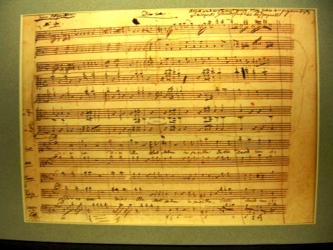 A hand-written sheet music by Wolfgang Amadeus Mozart (Requiem (Mozart) کوردی: وێنەی نۆتەی مۆسیقای مۆتسارت